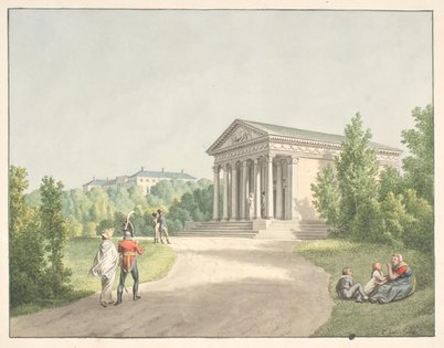 Watervoulour of the Apis Temple in Frederiksberg Gardens in Copenhagen, Denmark. Details